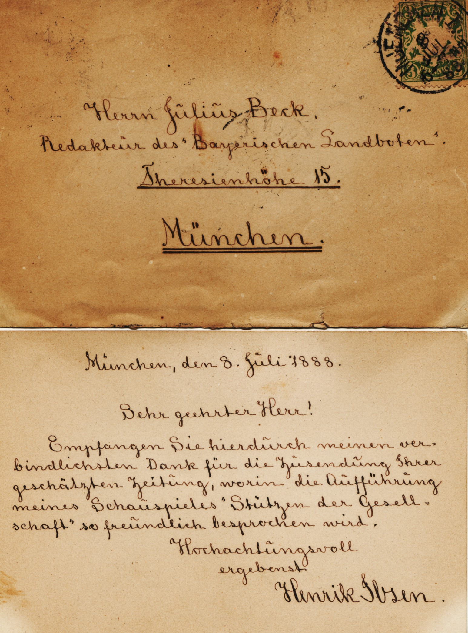 Letter of thanks from Henrik Ibsen to Julius Beck